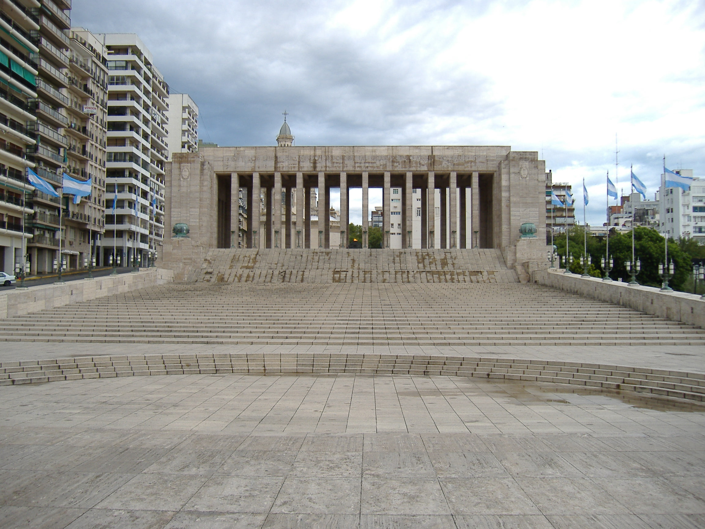 The Propylaeum (column gallery) of the National Flag Memorial (Monumento Nacional a la Bandera) in Rosario, Argentina. I, Pablo D. Flores, took this picture on 28 February 2006.